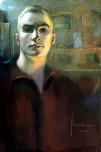 Rolf Armstrong, self portrait, 1914, pastel on board, 21 x 14 1/4 in.